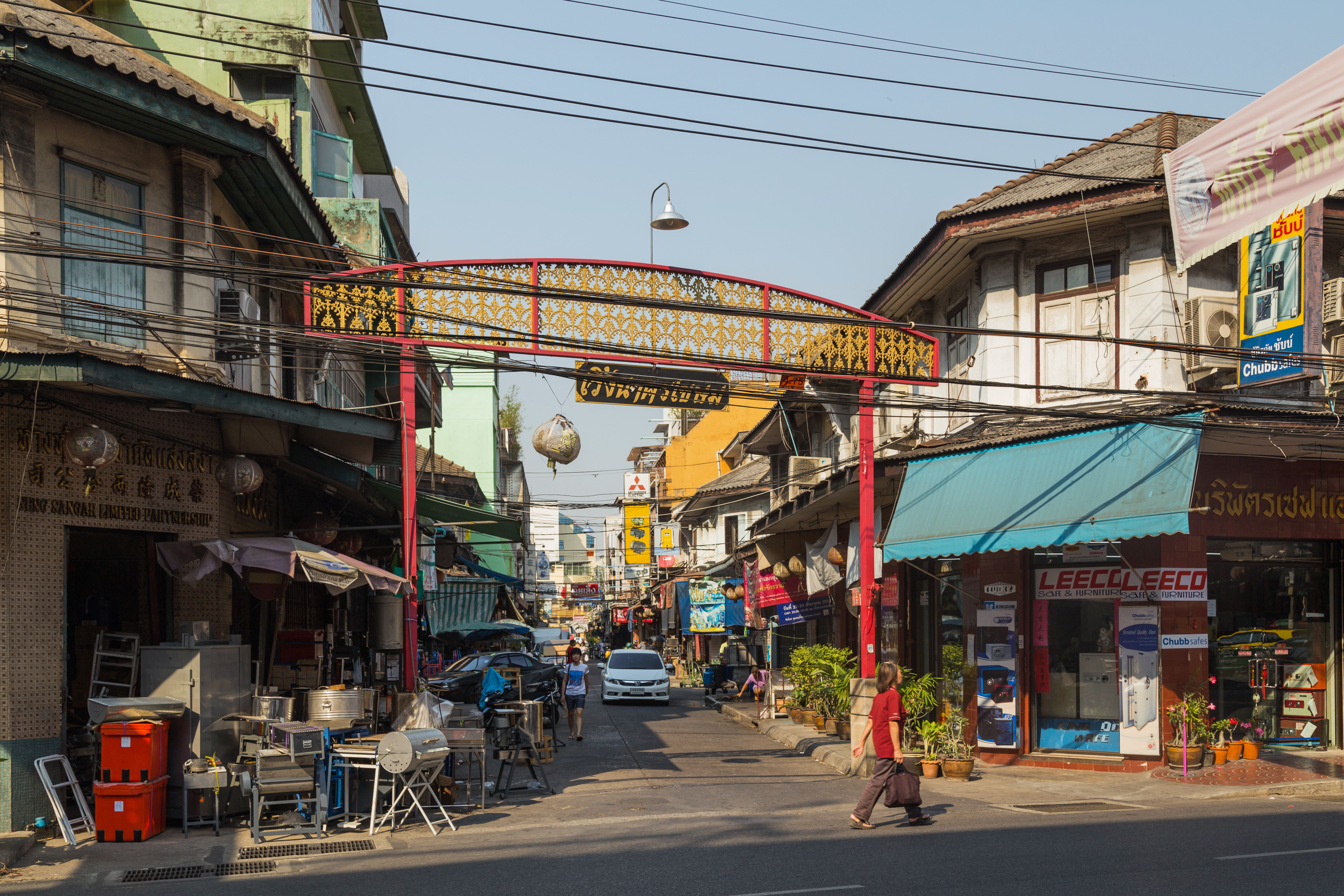 Entrance to Charoen Krung 10 street. Samphanthawong District, Bangkok, Thailand.